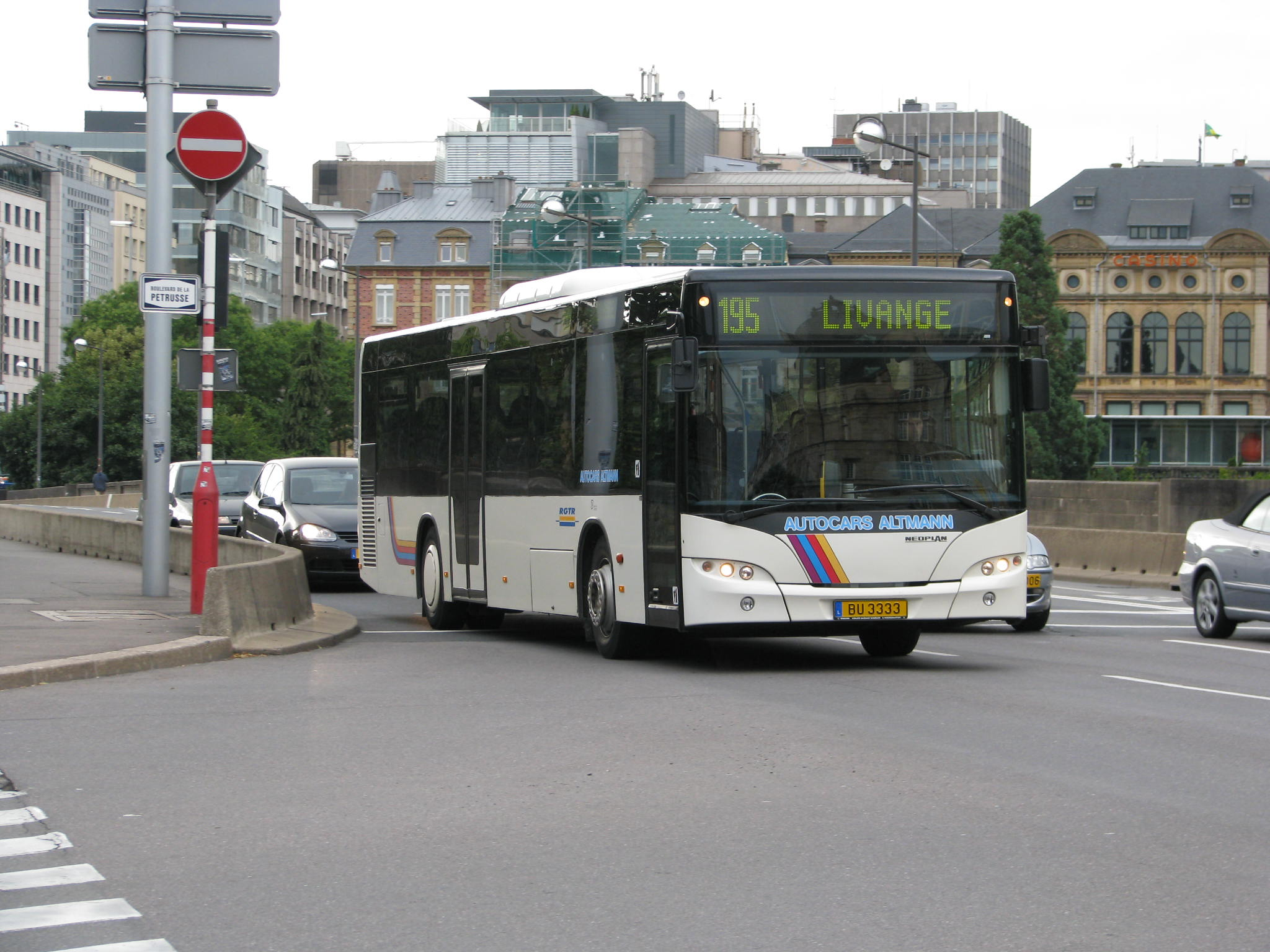 Neoplan bus in Luxembourg City.